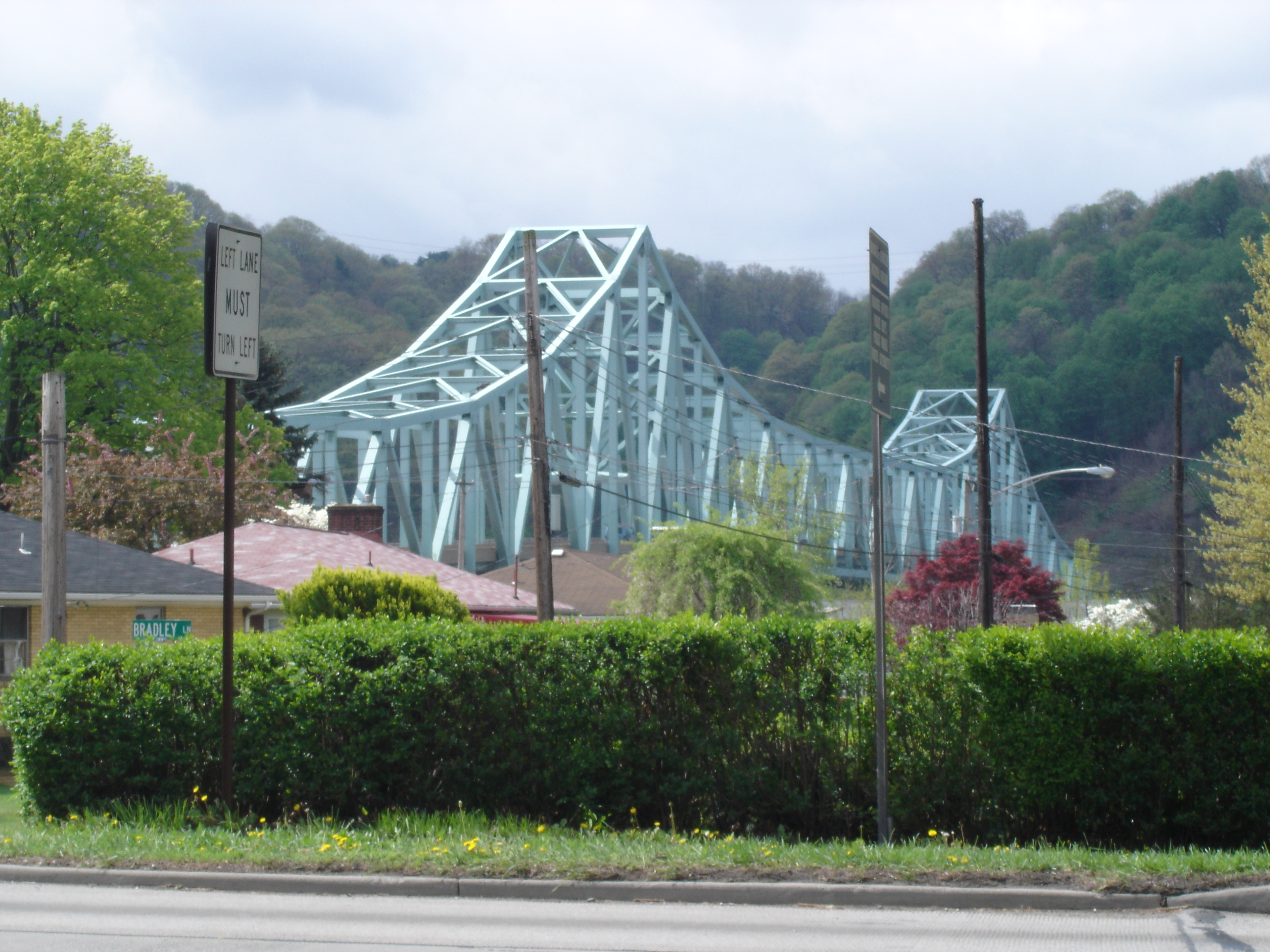 Taken by Robshill 24 April 2006 and released to the public domain. Sewickley Bridge is seen from the Ohio River Boulevard in Sewickley.